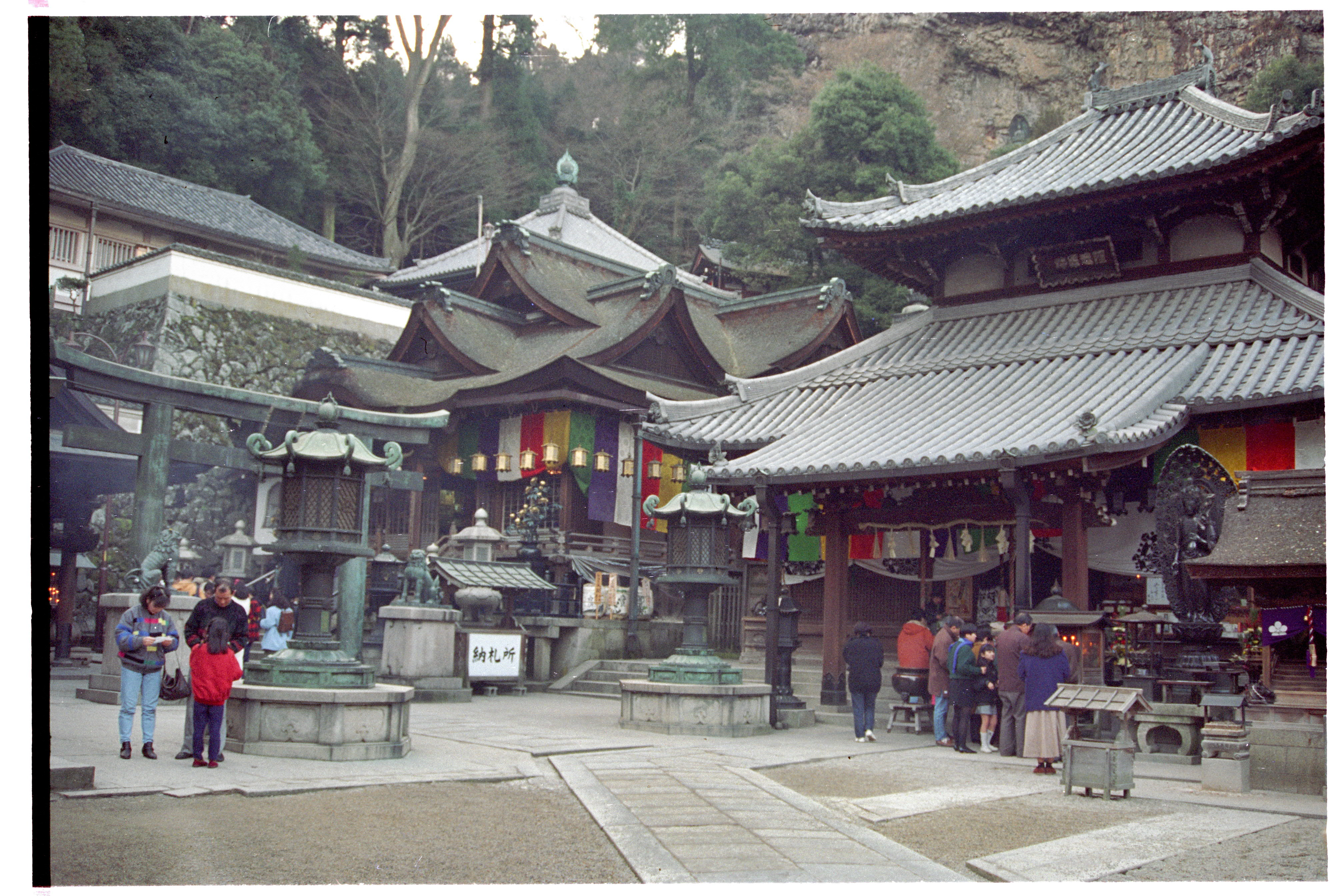 Hozan-ji Temple, Ikoma, Nara, Japan.